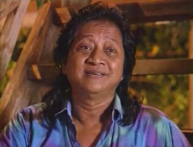 Rendra, an Indonesian poet and dramatist